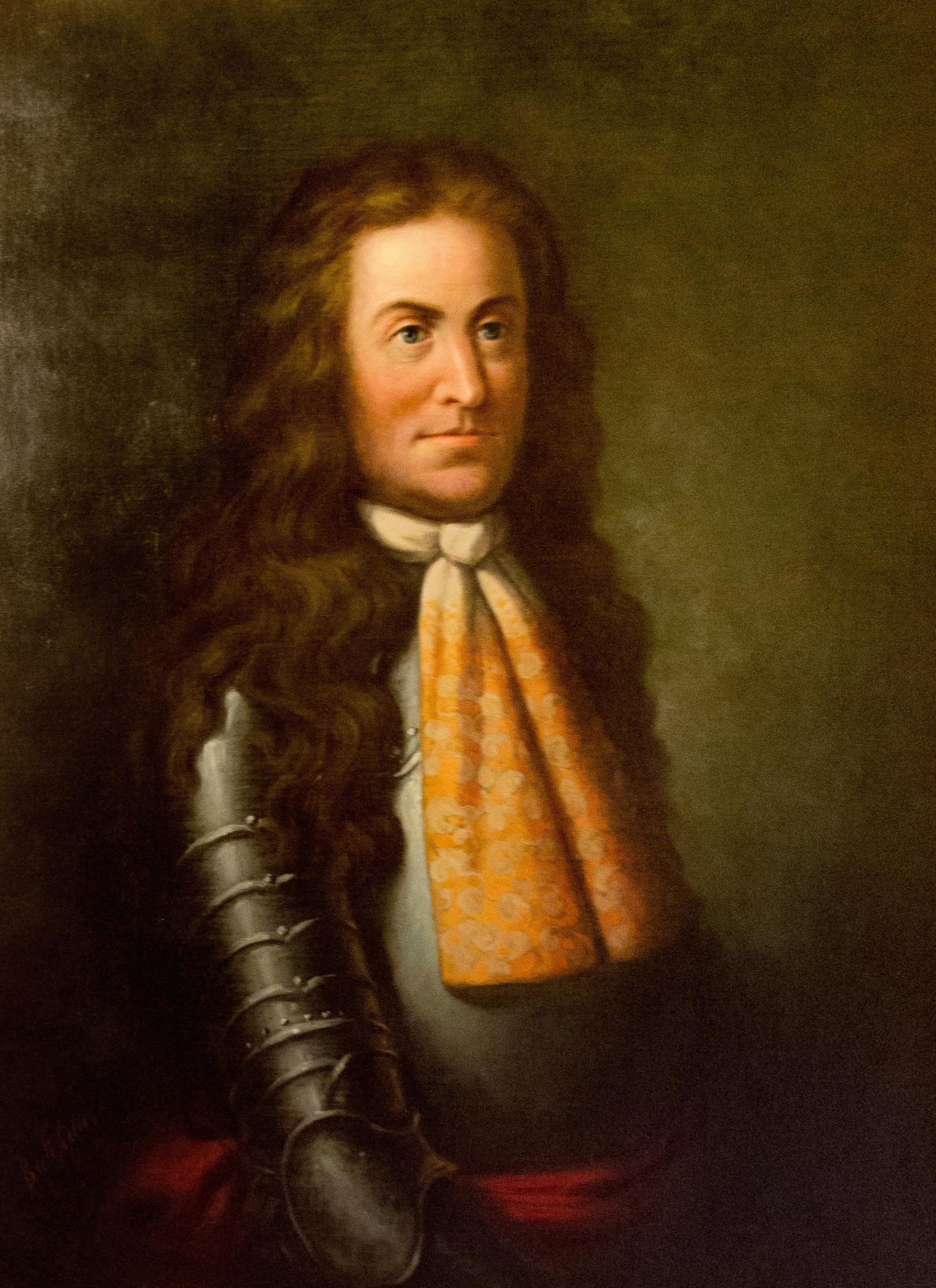 Sir Edmund Andros. Rhode Island State House collection.